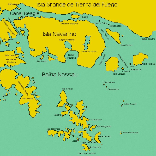 Scheme of some Islands south of the Beagle Channel